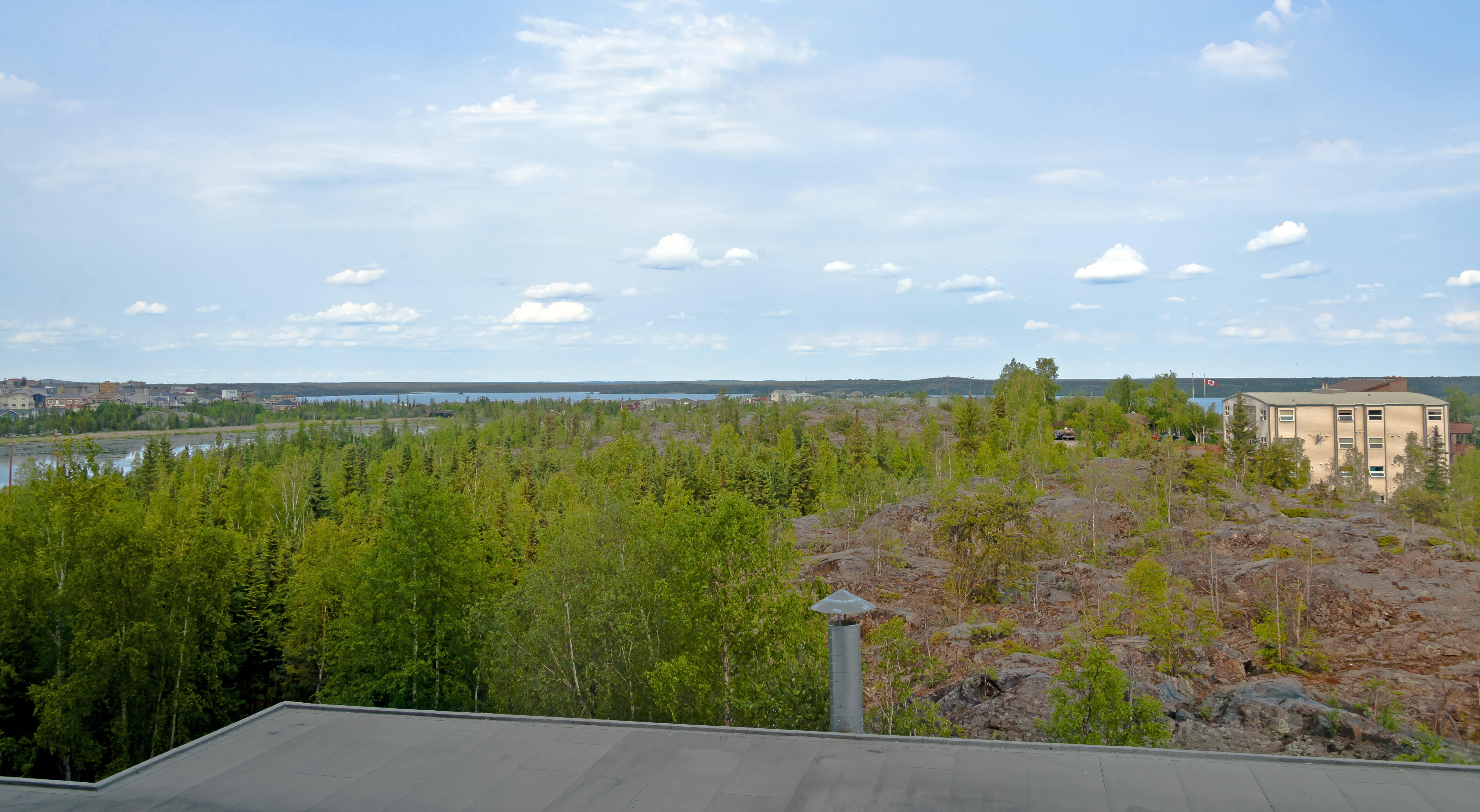 View from room on north side of the Explorer Hotel, Yellowknife, NT, Canada. Niven Lake is at left.